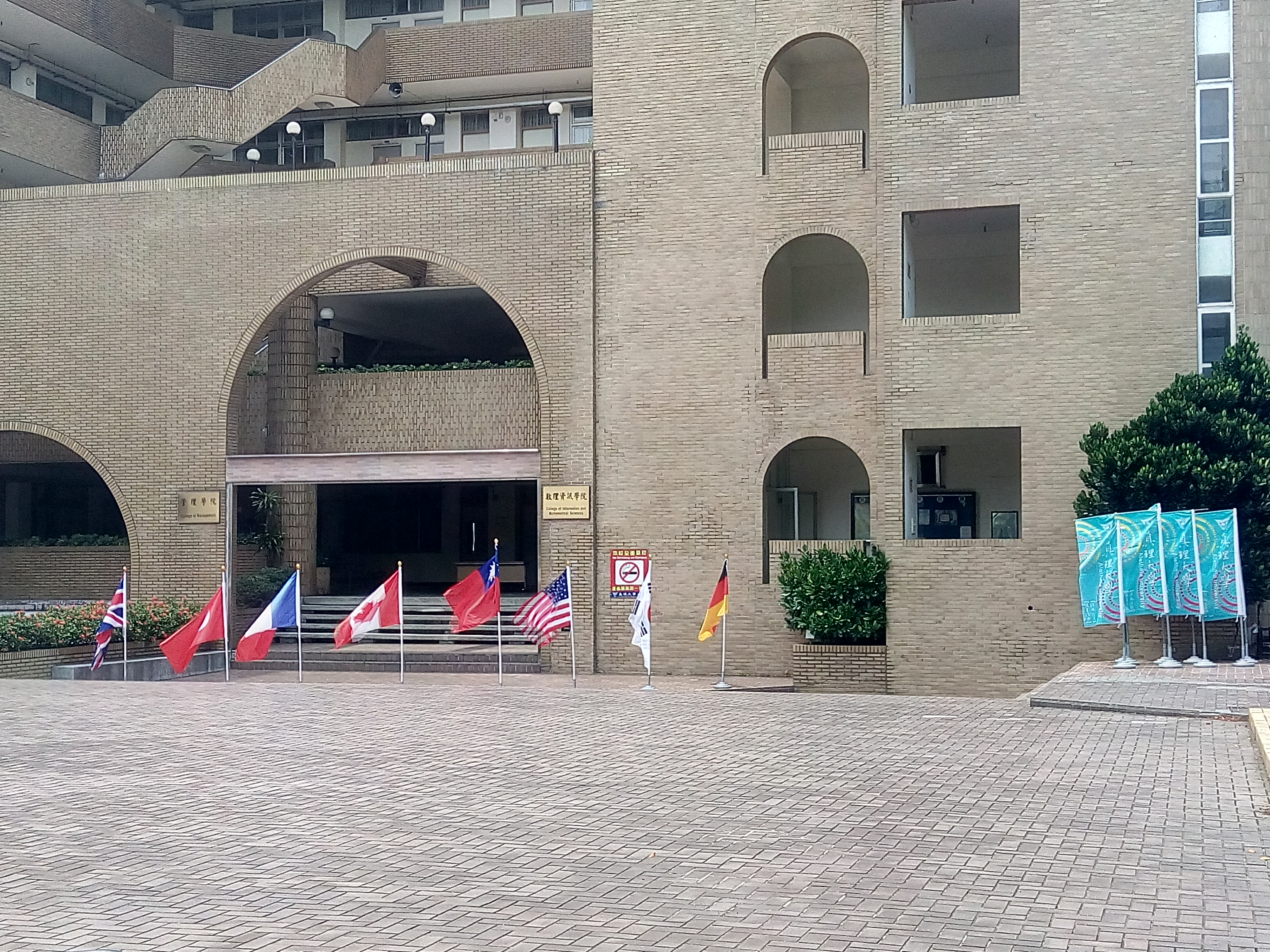 Countries visiting at Aletheia University.Turkey,England,USA,France,Canada,German,Korean.